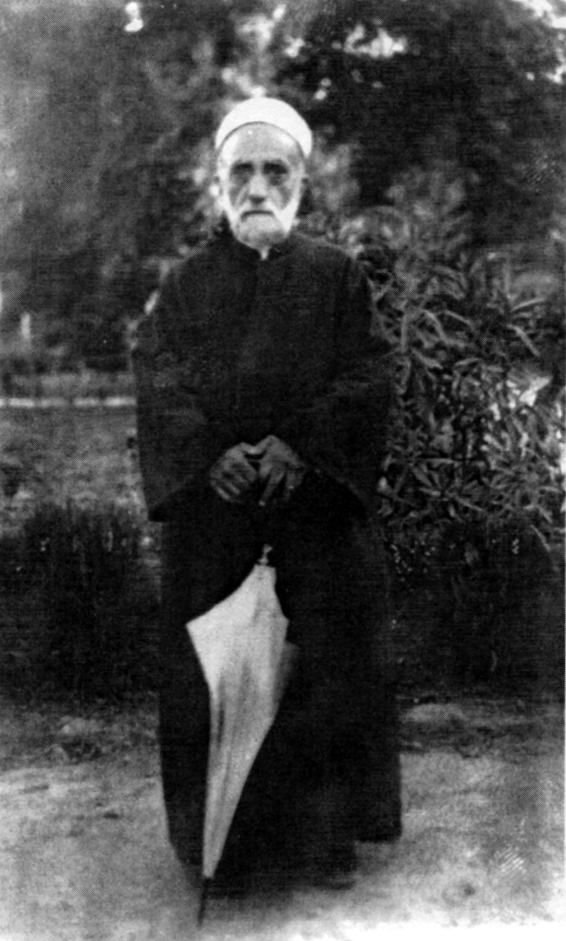 Photo of Mirza Muhammad Ali Bahai, son of Bahaullah